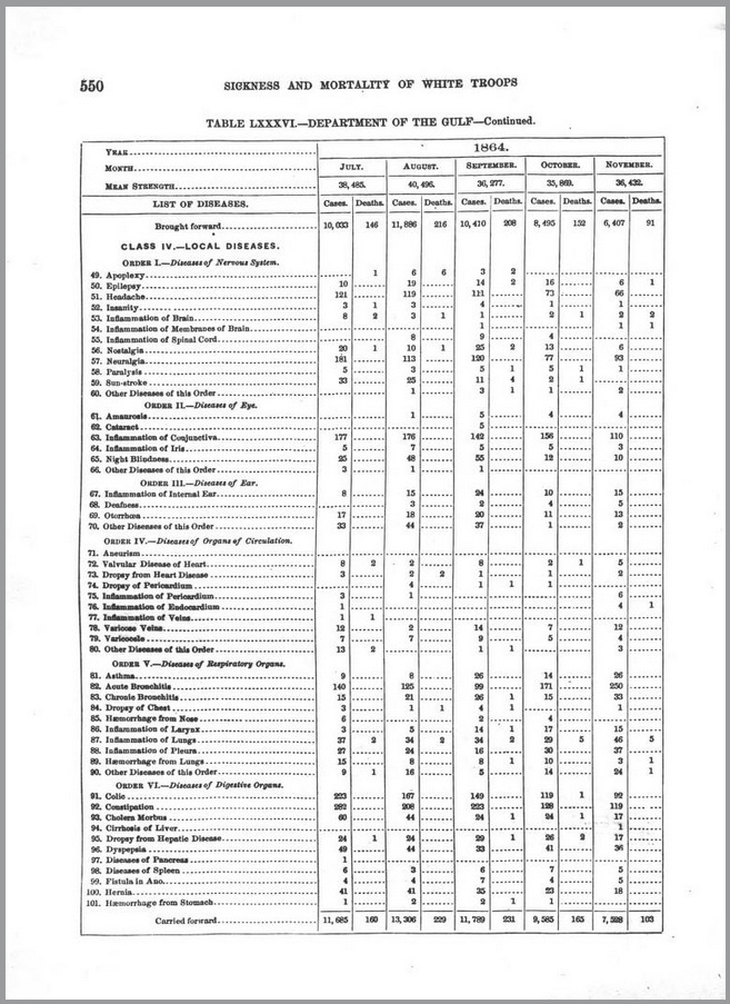 Page 550 of the Medical and Surgical History of the War of the Rebellion Part I (Medical), vol 1. Table tallying the losses.